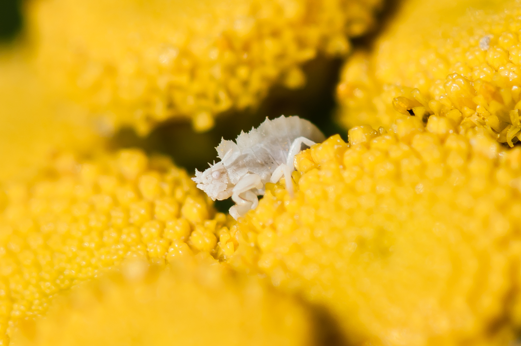 Photograph of an ambush bug nymph, photographed in Williamsburg, Virginia